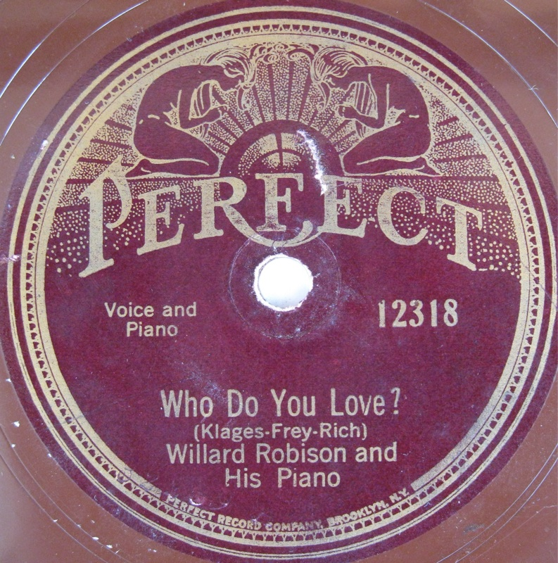 Willard Robison shellack 20s who do you love